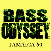 Bass Odyssey facebook page profile picture to honor the celebration of Jamaica's 50th year of independence.